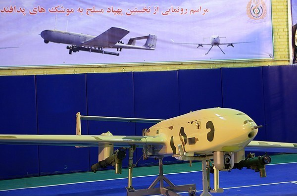 Sadegh-1 UAV unveiling ceremony.